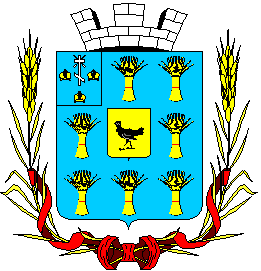 Coat of Arms Bobrynets it was suggested by B. Kene but never approved